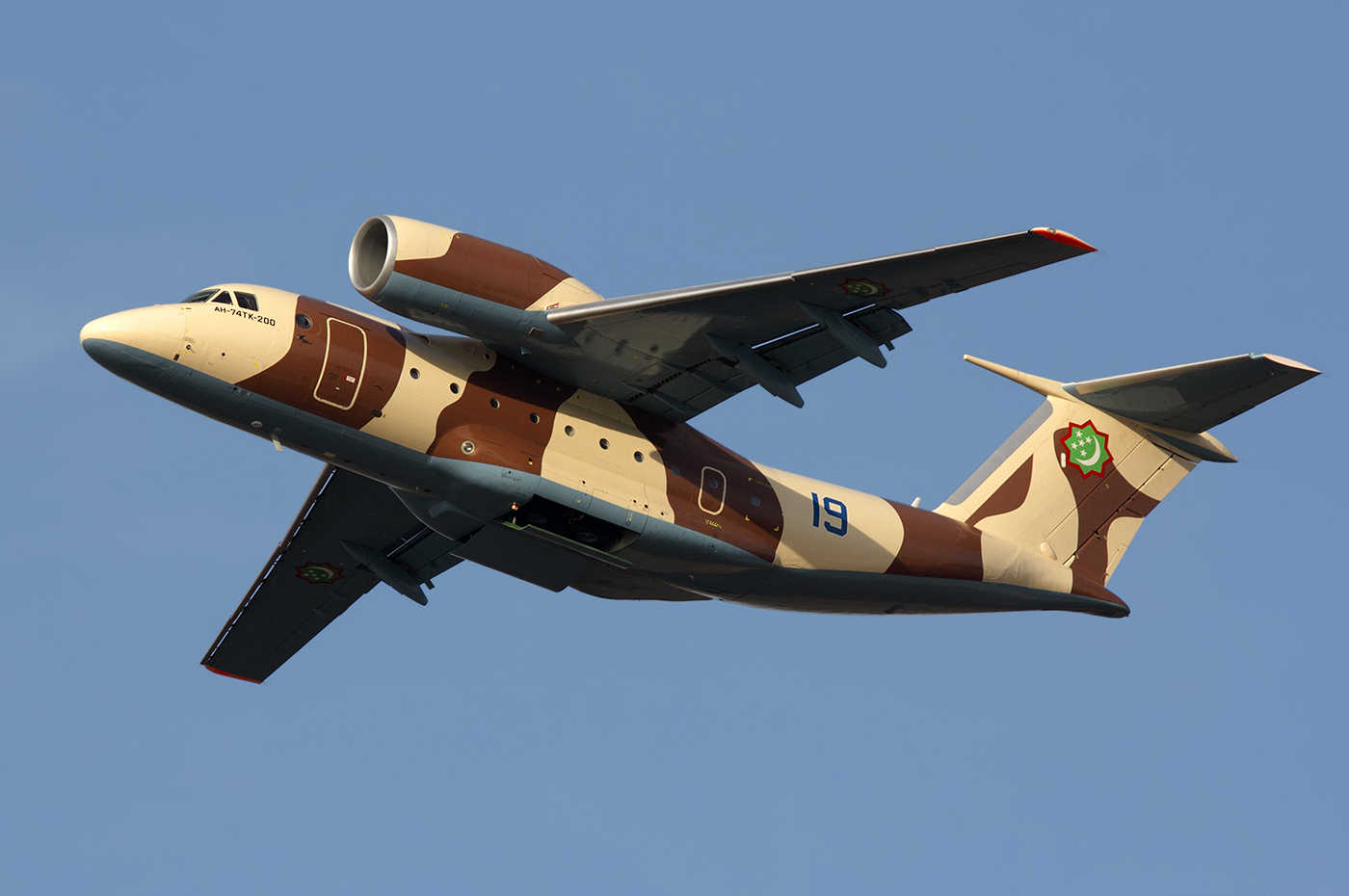 Turkmenistan Air Force Antonov An-74TK-200 at Kharkiv Airport